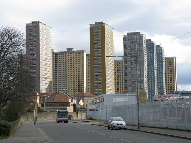 Red Road Flats, Balornock (from Petershill Road) The original Red Road after which the tower blocks were named was a dirt track bounded by the former Low Balornock Farm and Barmulloch Farm. These 8 tower blocks were built 1962-1969 on this area. At 31 storeys they were then the tallest tower blocks in Europe. The current site is bounded by Petershill Drive and the modern Red Road. The flats were designed by architect Sam Brunton and built to replace slum tenements, but residents were complaining about the poor conditions by 1971. The most distant tower block (also the one in the photograph farthest to the right) is now due for demolition.